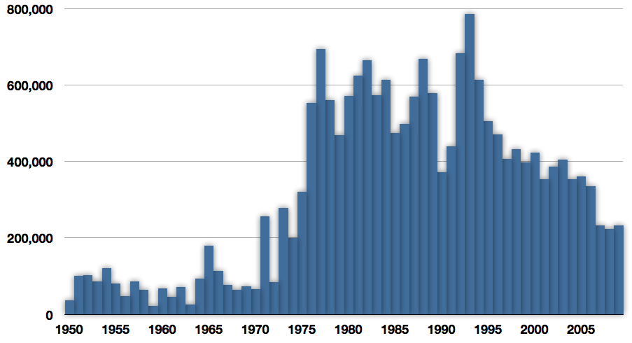 Fisheries recorded capture of Trachurus capensis from 1950 to 2009. Data source FAO fisheries